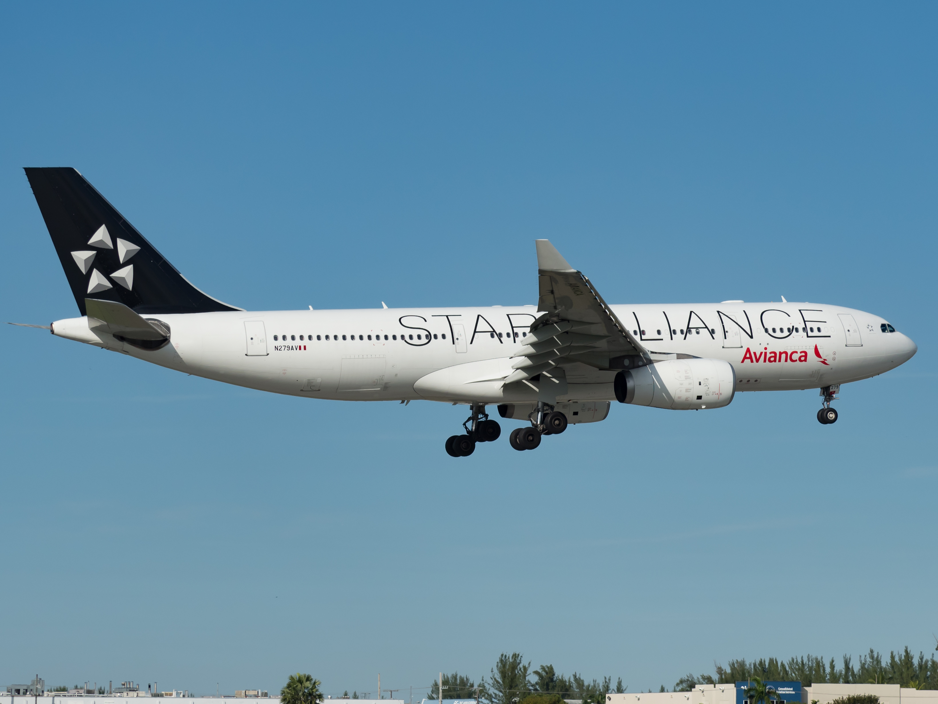 Avianca Airbus A330 at Miami International Airport